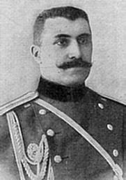 Defense Minister of the First Republic of Armenia Hovhannes Hakhverdyan